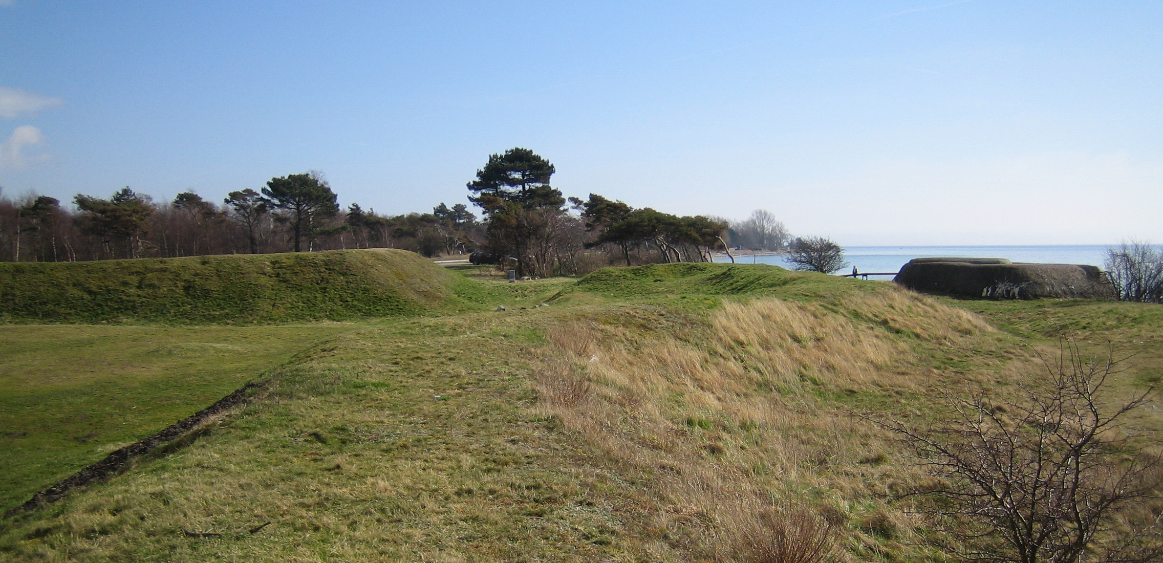 18:th century earth-works at Skåre near Trelleborg, Sweden